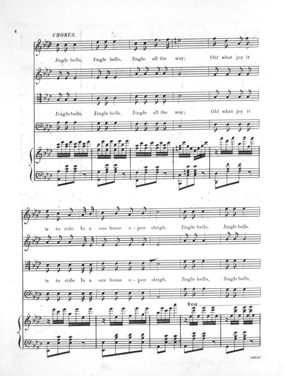 Musical notation of "One Horse Open Sleigh", chorus